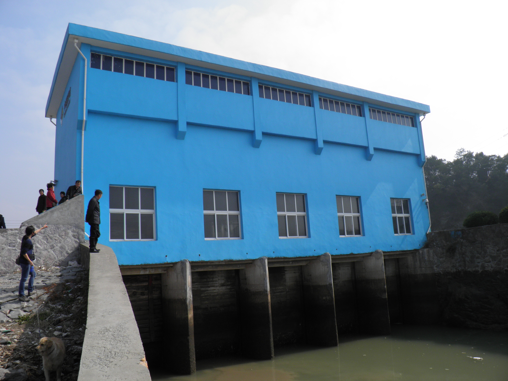 Jiangxia Tidal Power Station, Yueqing Bay, Wenling, Zhejiang, PR China